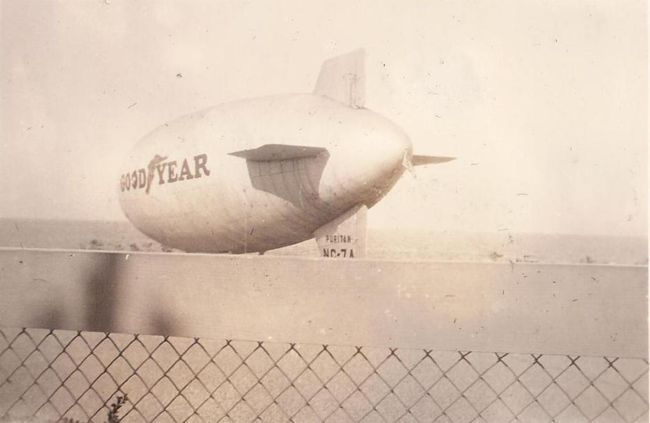 Goodyear blimp "Puritan" NC 7A at the 1933 Chicago World's Fair.